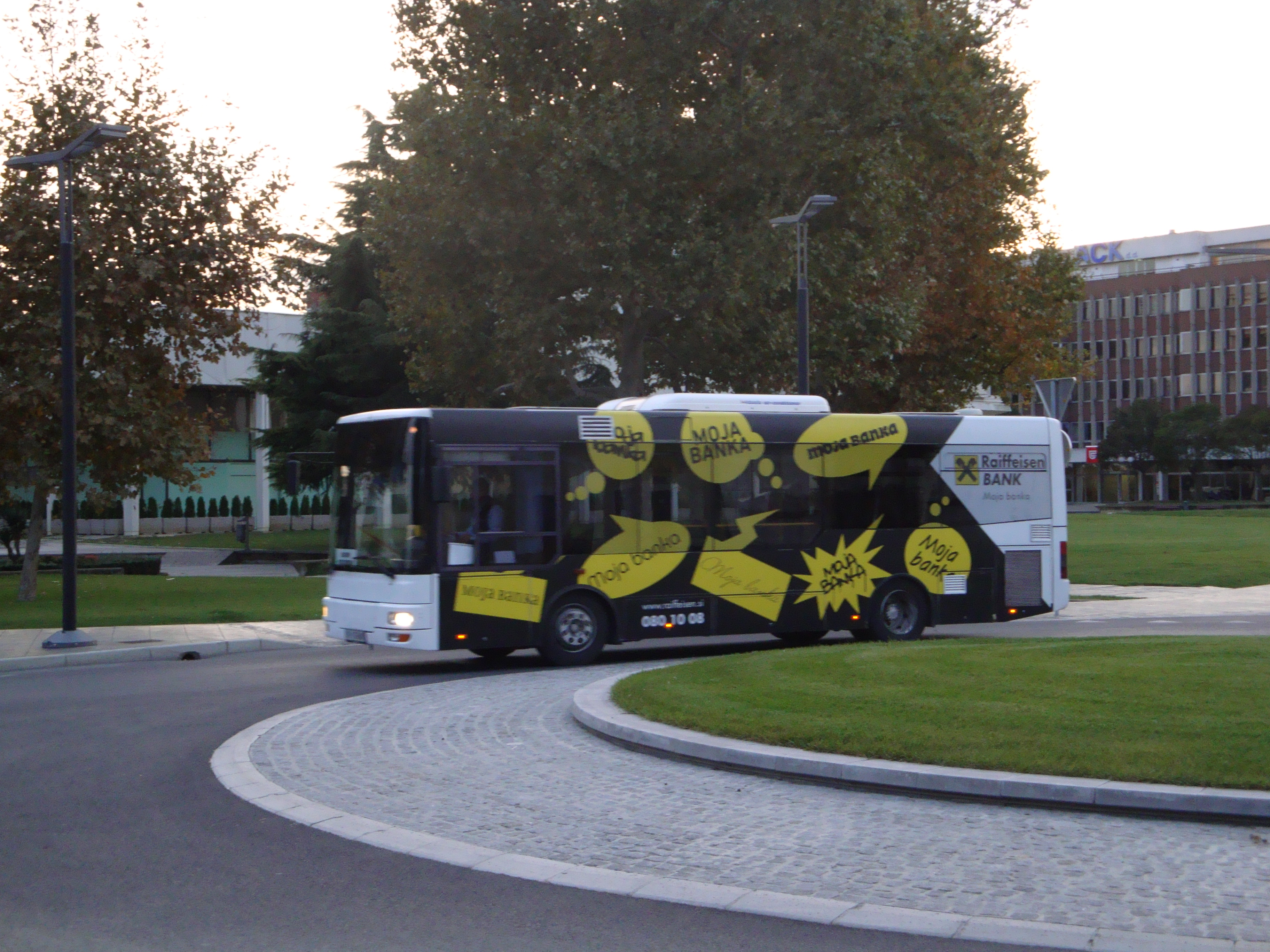 City bus in Koper